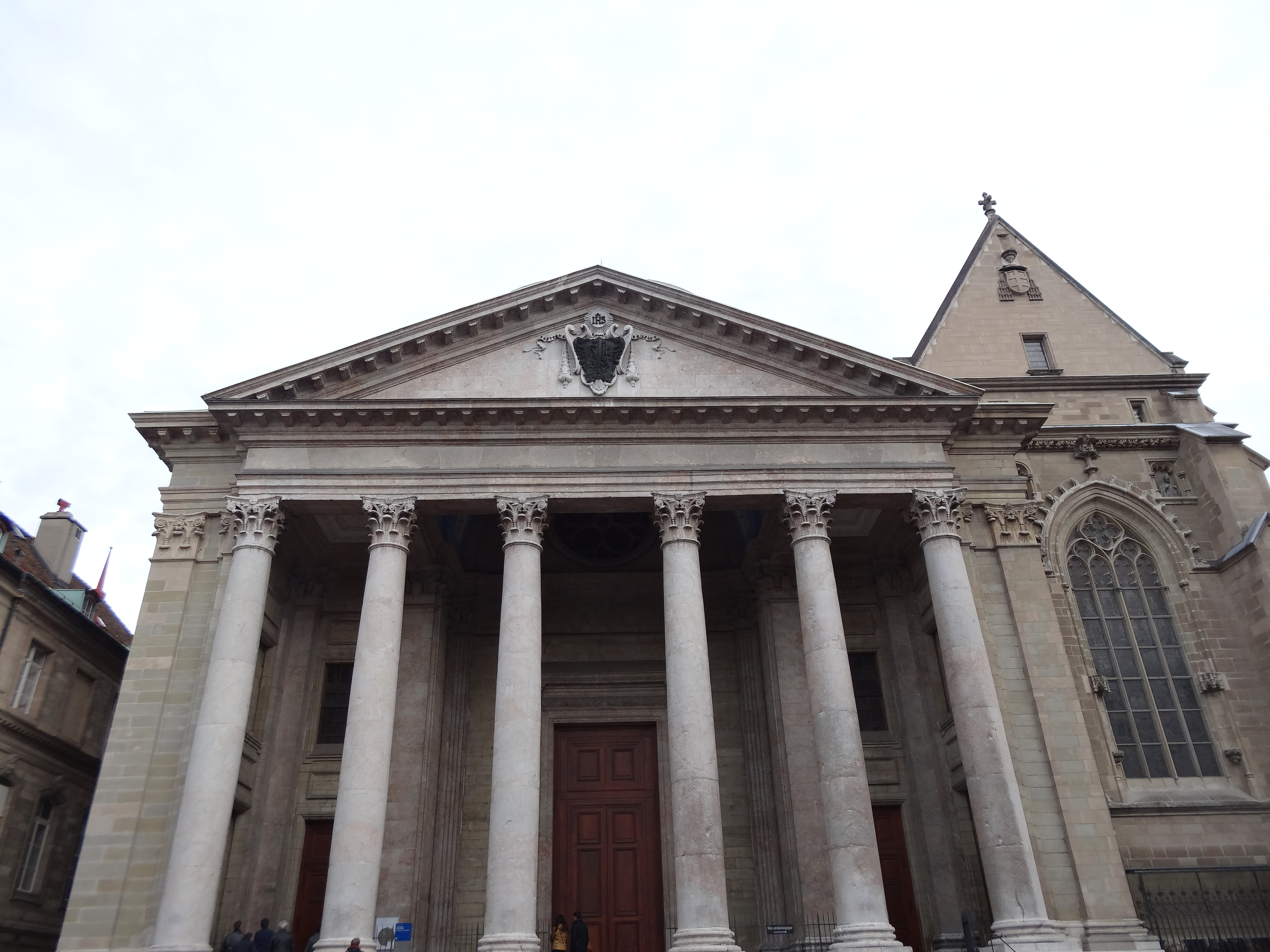 Geneva